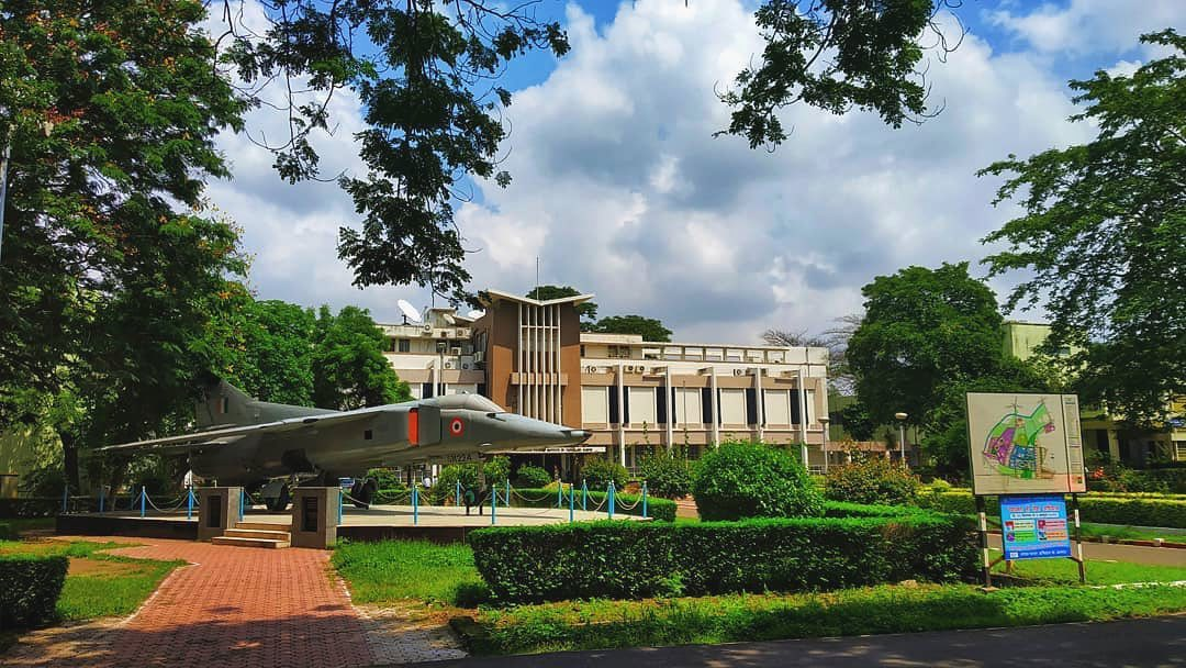 Entrance to Visvesvaraya National Institute Of Technology, Nagpur